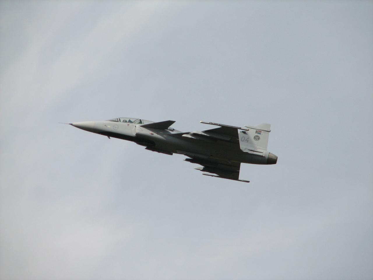 South Africa's Gripen Fighter